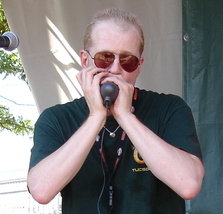 Steve Baker (blues culture at the Hamburg Harley Days)